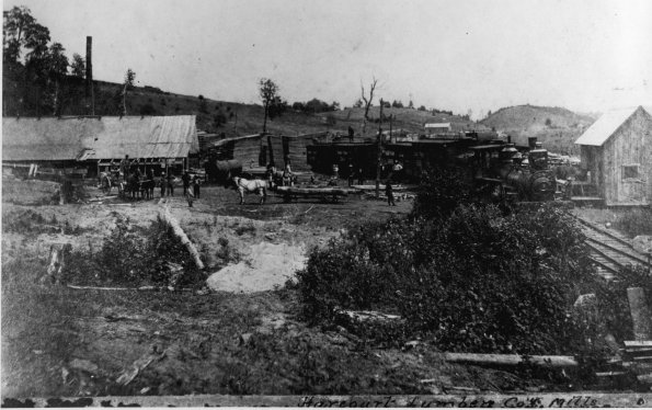 One of the larger customers for the Irondale, Bancroft & Ottawa Railway was Harcourt Lumber, roughly at the midpoint along the railway.